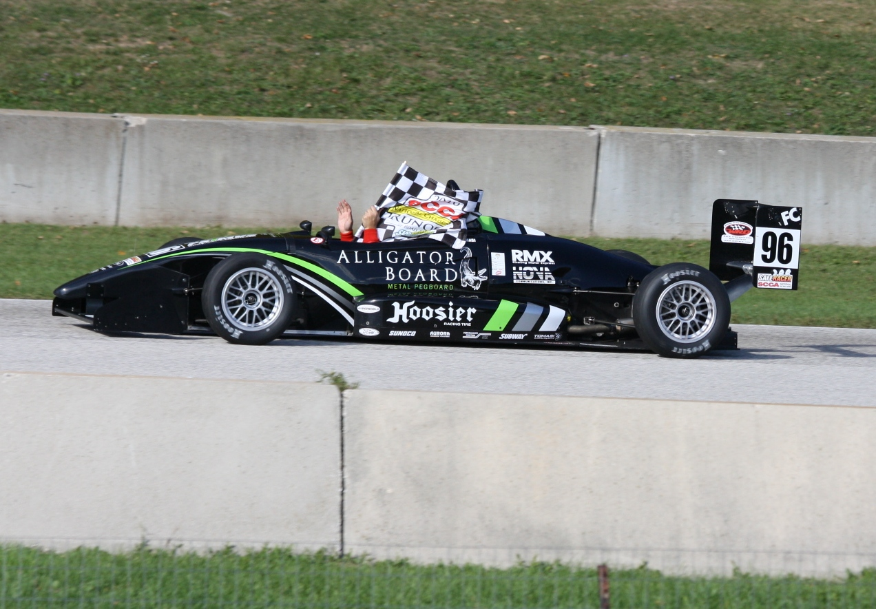 The Formula Continental winner Brian Tomasi at the 2010 SCCA National Championship Runoffs at Road America.